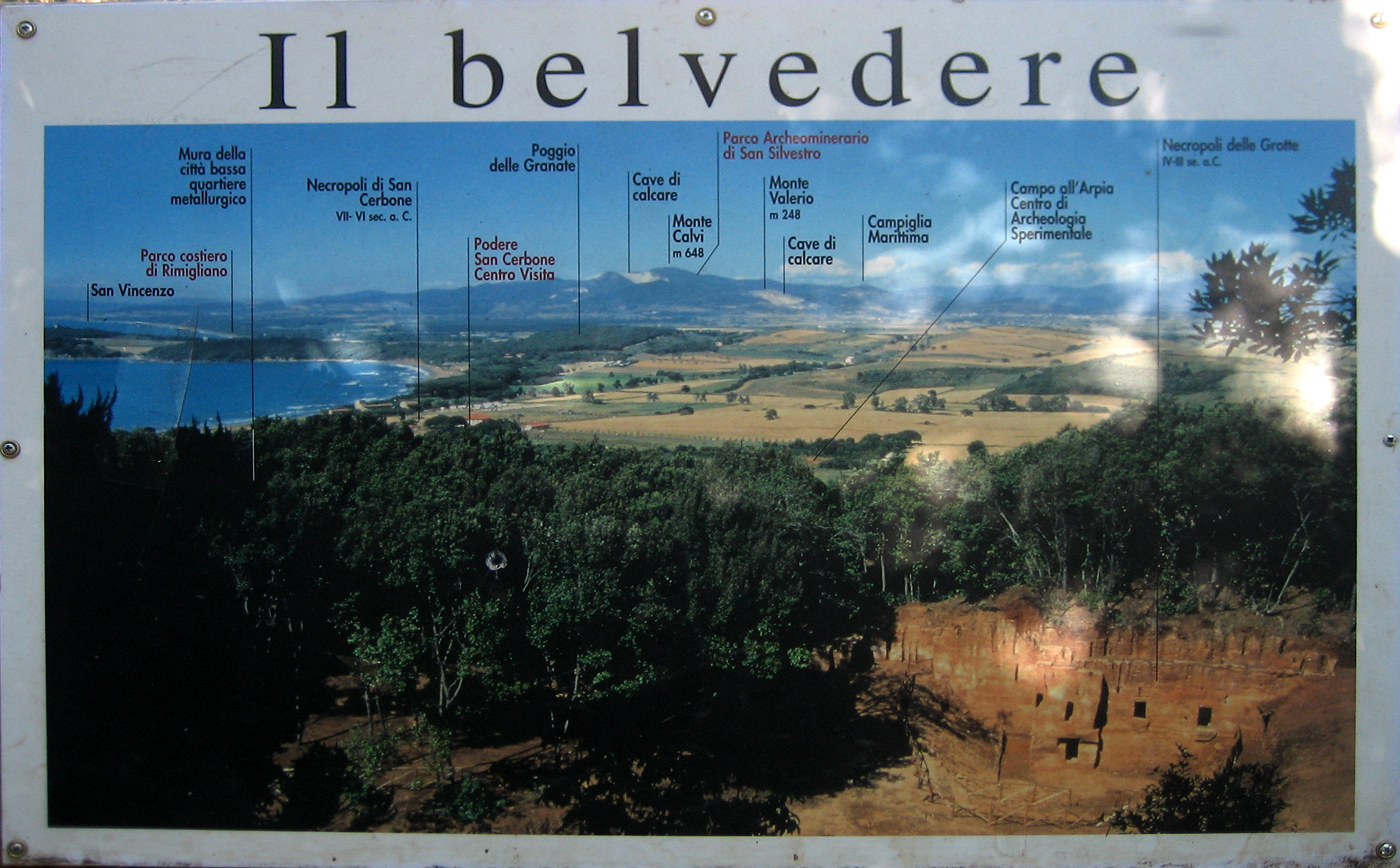 Sign on the hillside above the Necropoli delle Grotte" at Populonia in tuscany in Italy.